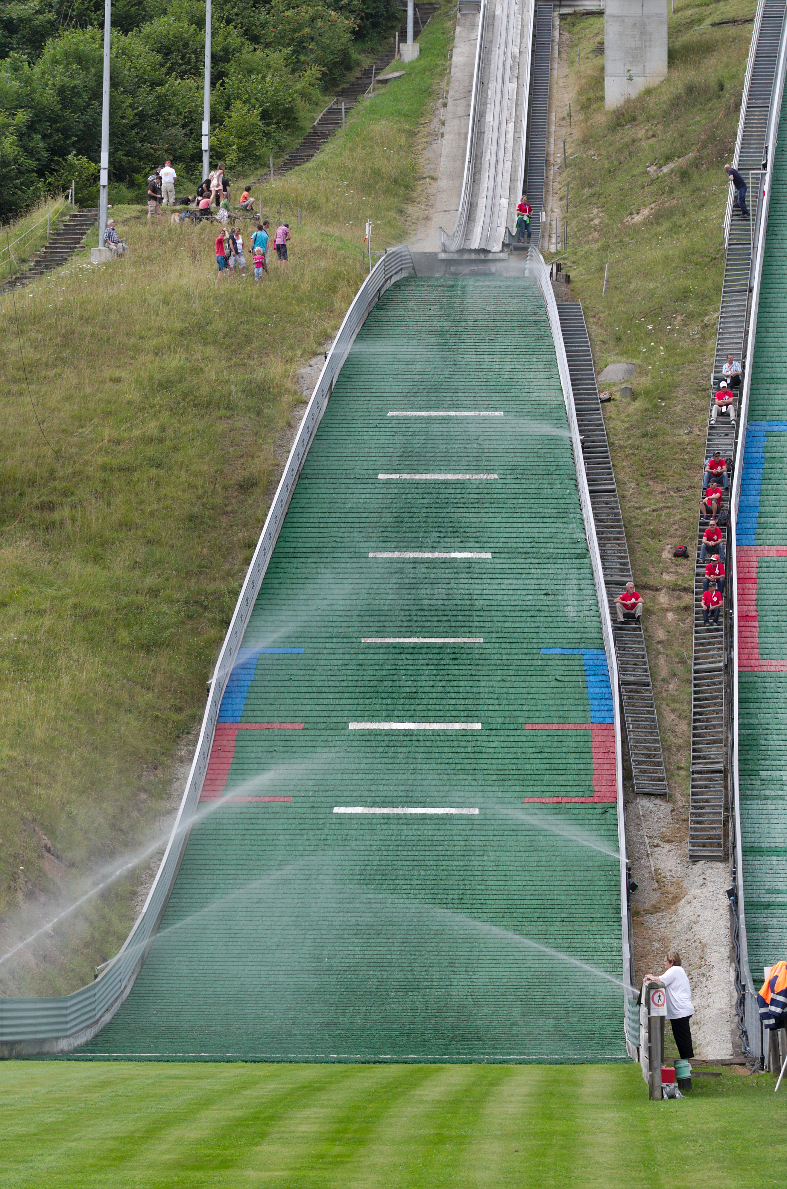 FIS Sommer Grand Prix 2014 - 20140809 - Hydratation of the K 45